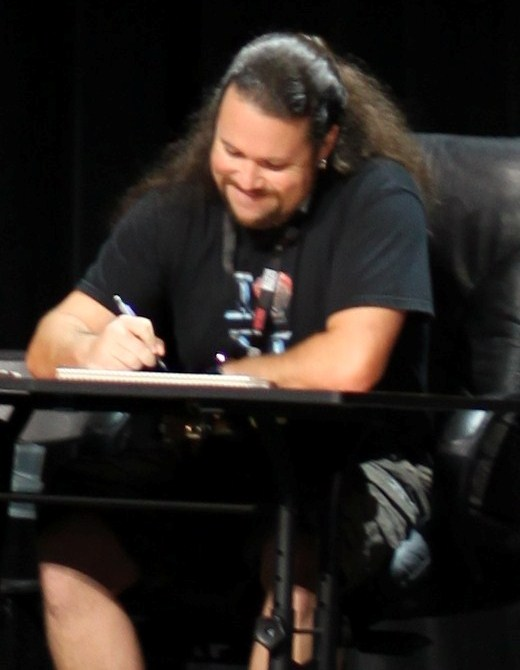 Samwise Didier at BlizzCon 2010.